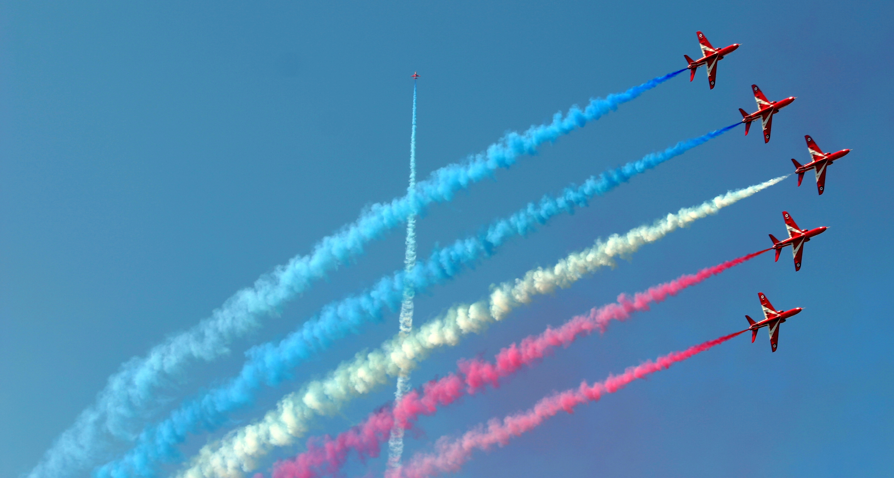 Red Arrows at Royal International Air Tattoo 2005